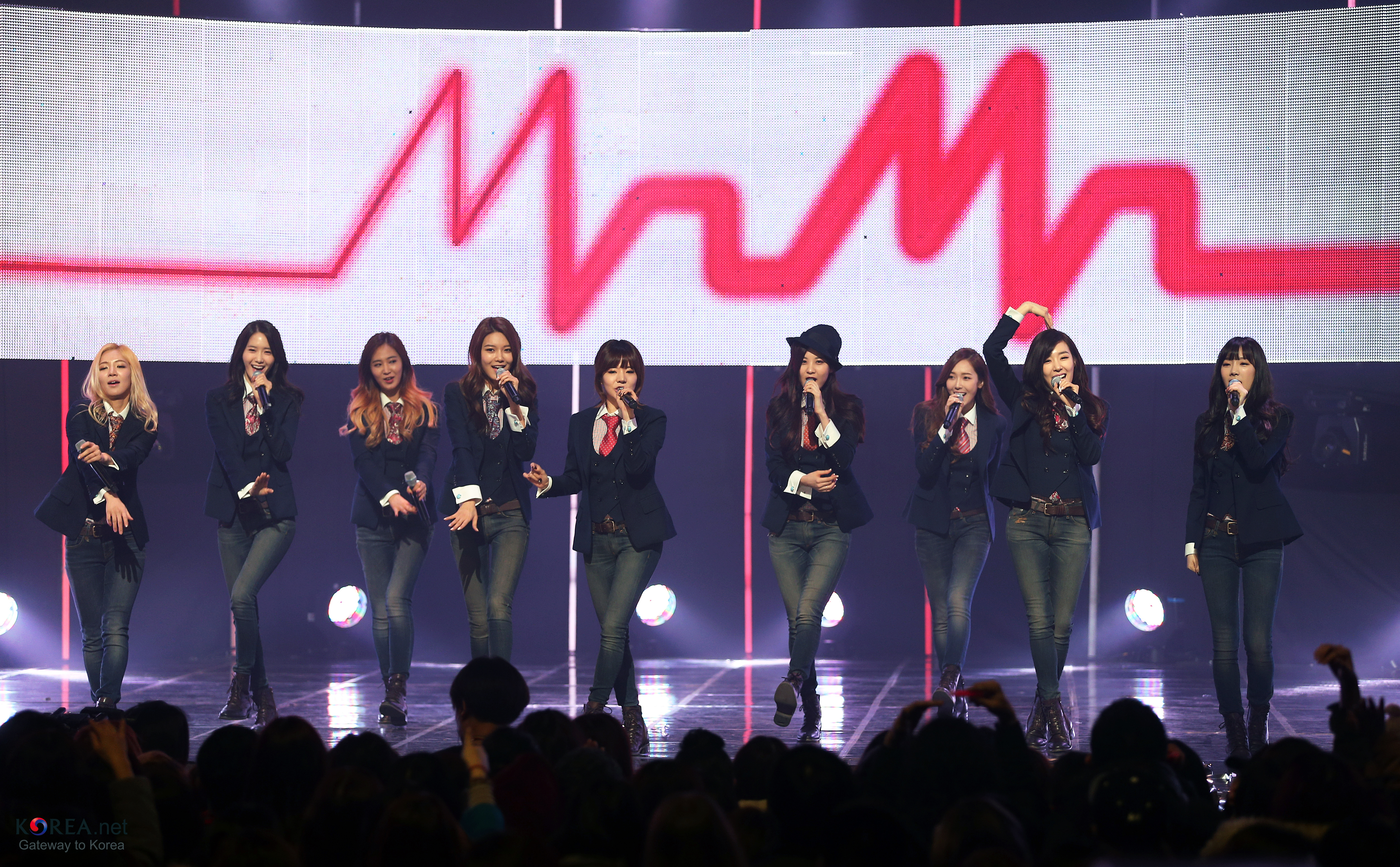 Mcountdown. Girl’s Generation Comeback Performance. CJ E&M Center, Sangam-dong, Mapo-gu, Seoul